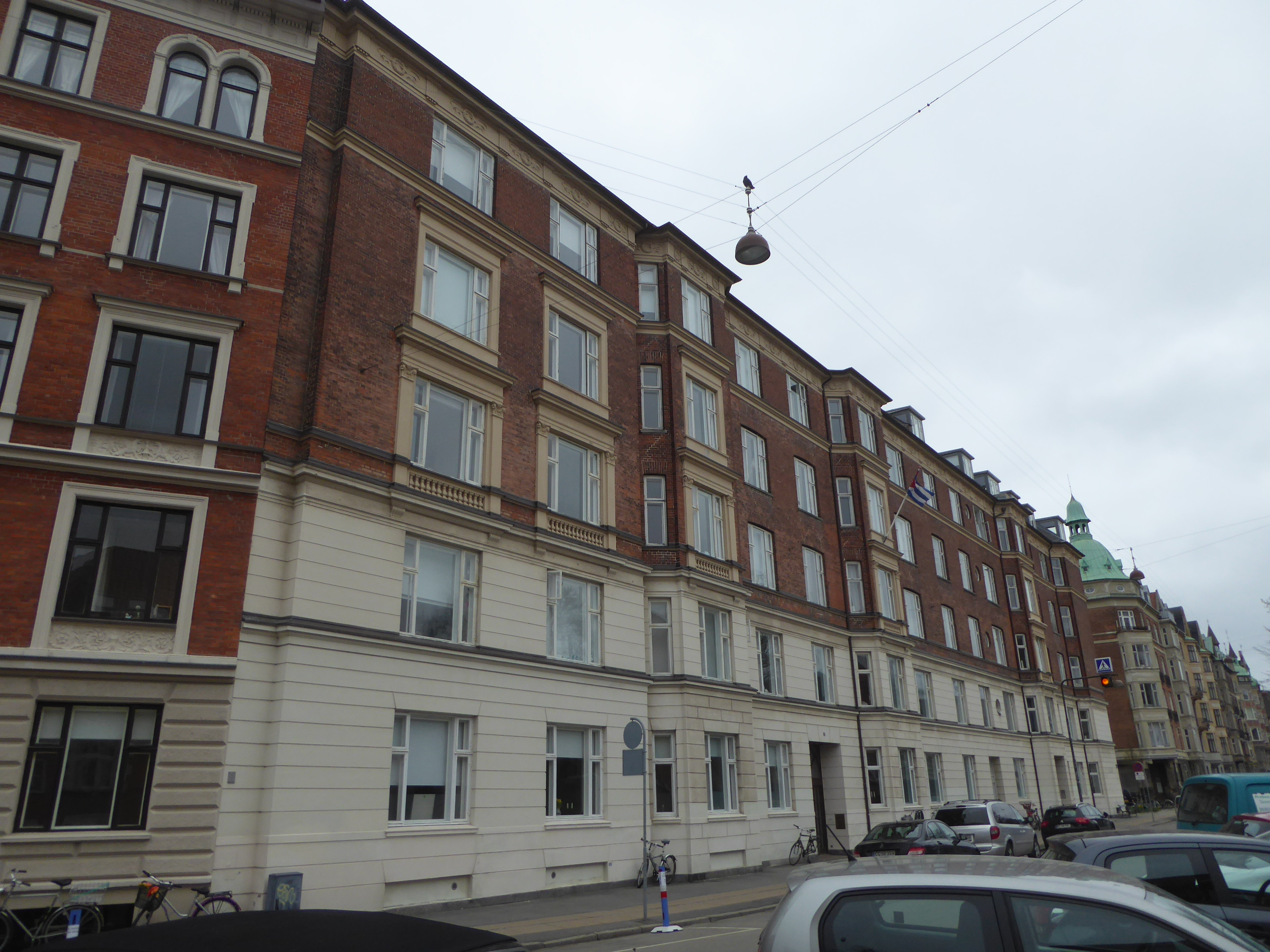 Apartment building with the embassy of Cuba at Kastelsvej in Østerbro in Copenhagen.